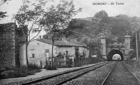 Imagen de la Boca del Montgat en el siglo XX.